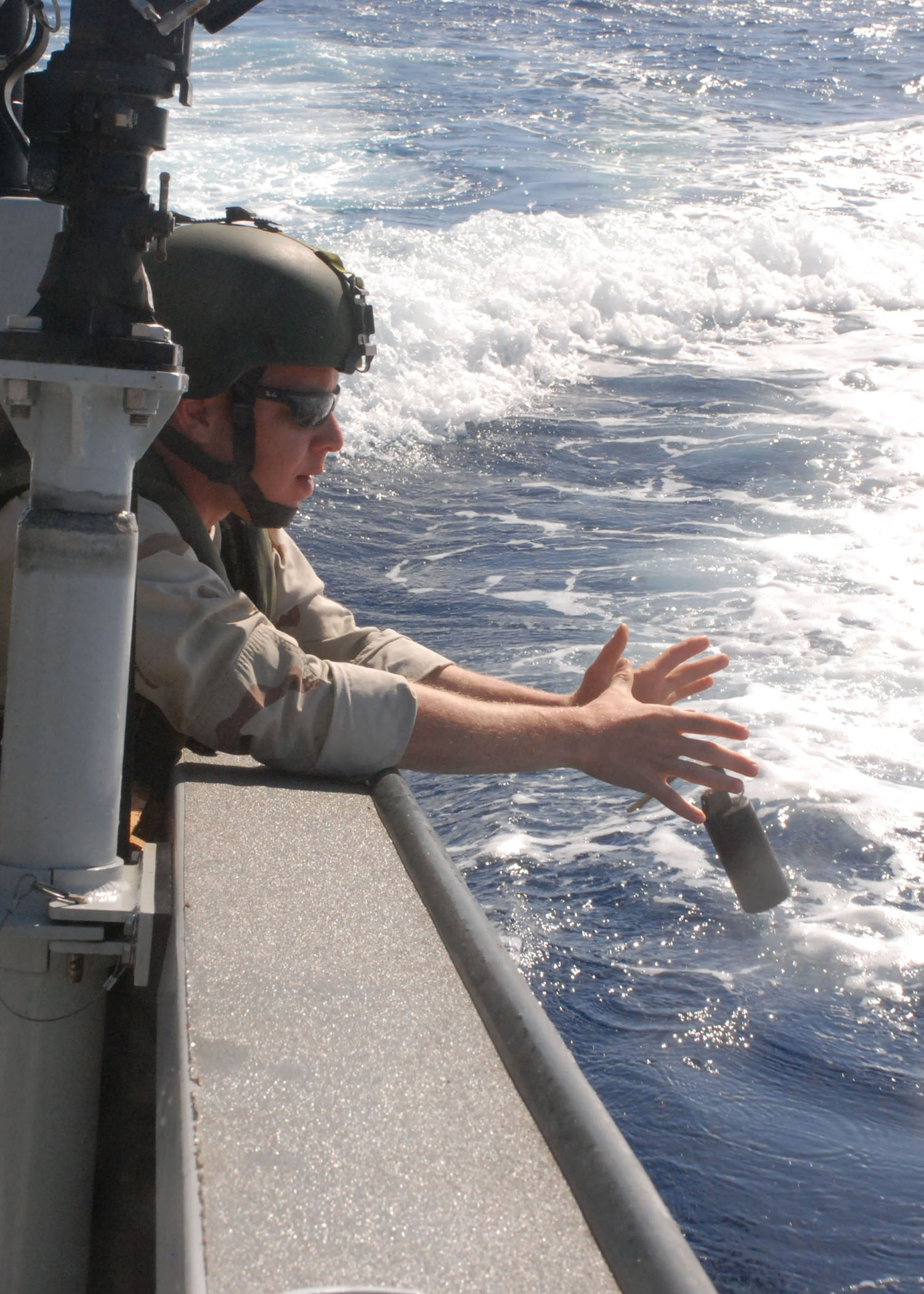 Coast Guard Petty Officer 2nd Class Chris Bentley drops a concussion grenade into the waters of Guantanamo Bay during a training exercise, Feb. 7, 2008. Weapons practice is a regular part of PSU 313 training. (JTF Guantanamo photo by Navy Petty Officer 2nd Class Cheryl Dilgard)